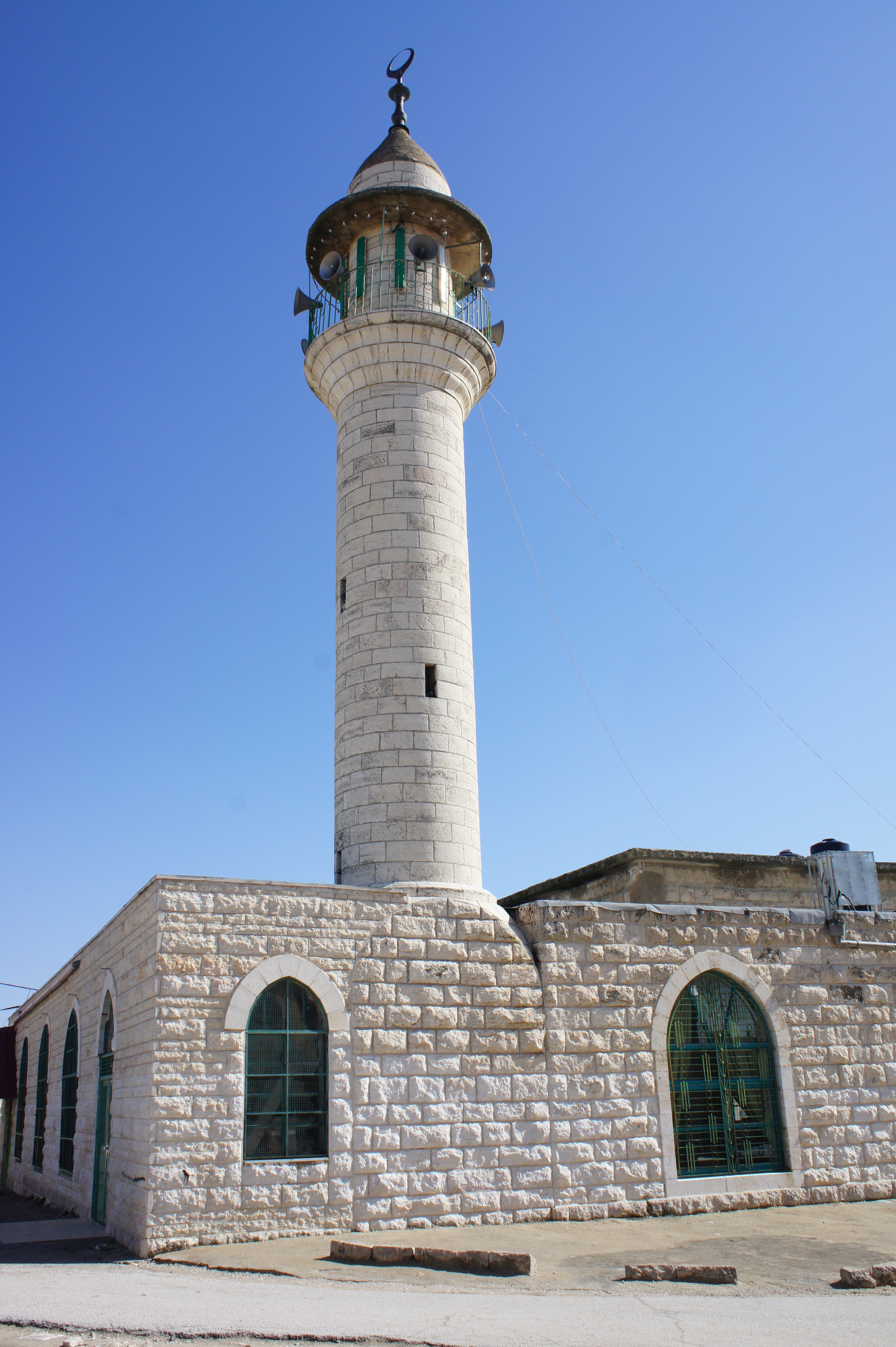 Mosque at Yatta, Hebron district, Palestine